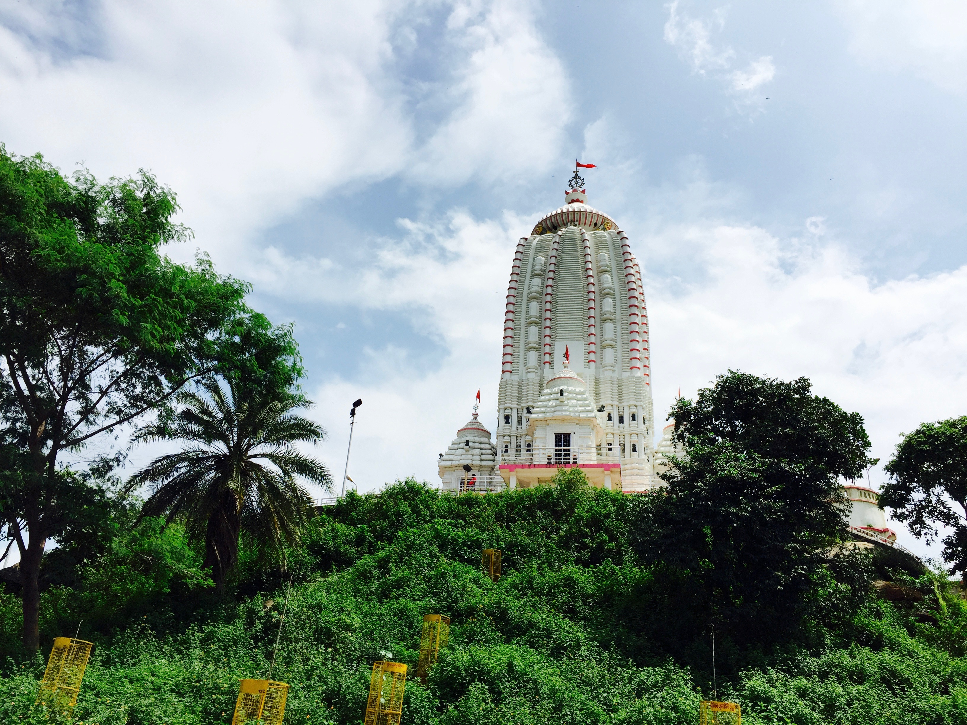 The Jagannath temple is a Vishnu avatar temple. This temple is a smaller version of the Puri Jagganatha temple. Both feature Vaishnava festivities such as annual chariot procession. Jharkhand India, Vaishnavism